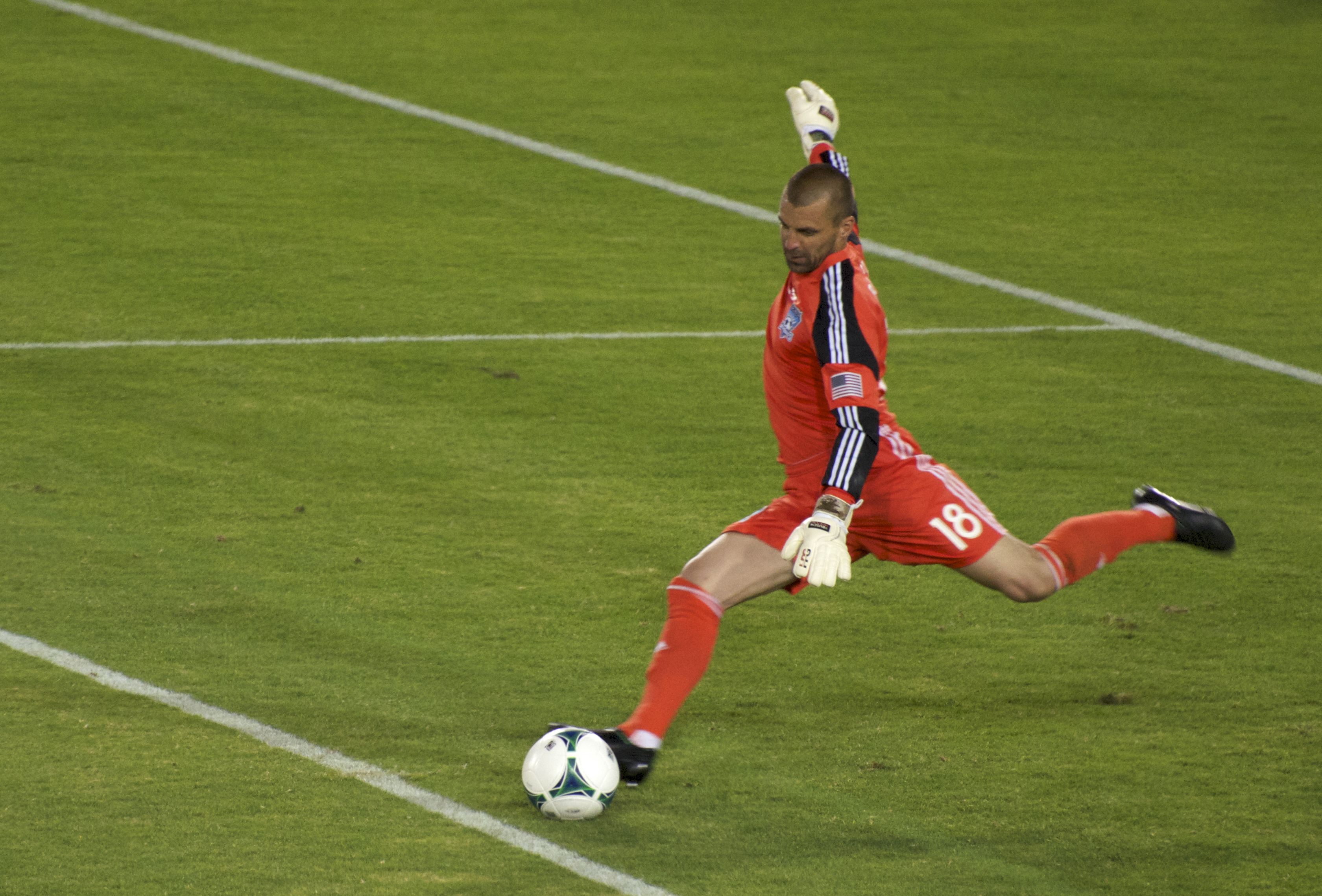 Jon Busch, Stanford Stadium, San Jose Earthquakes vs LA Galaxy, Saturday 2013-06-29